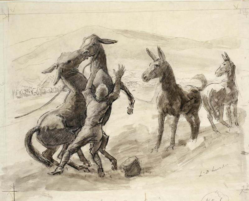 A Mountain Battery - in the mule-lines image: Two mules rear up while the groom attempts to grab the reins. Two other mules stand by and watch.